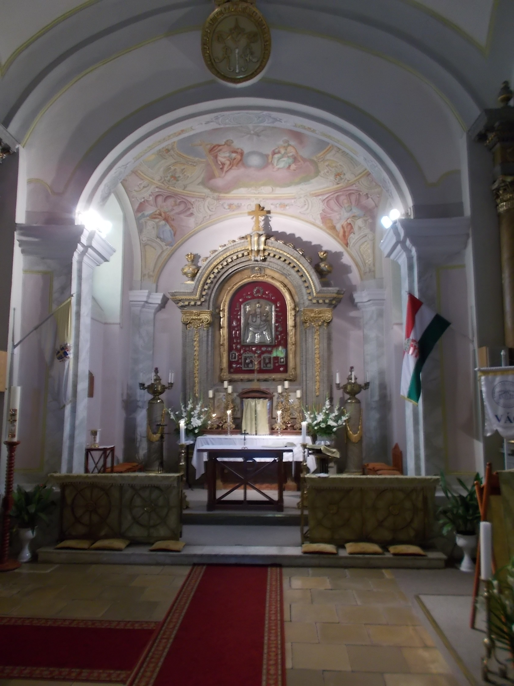 Seven Chapels. Listed ID 7499. - 2 Derecske Dune, Vác, Pest County, Hungary